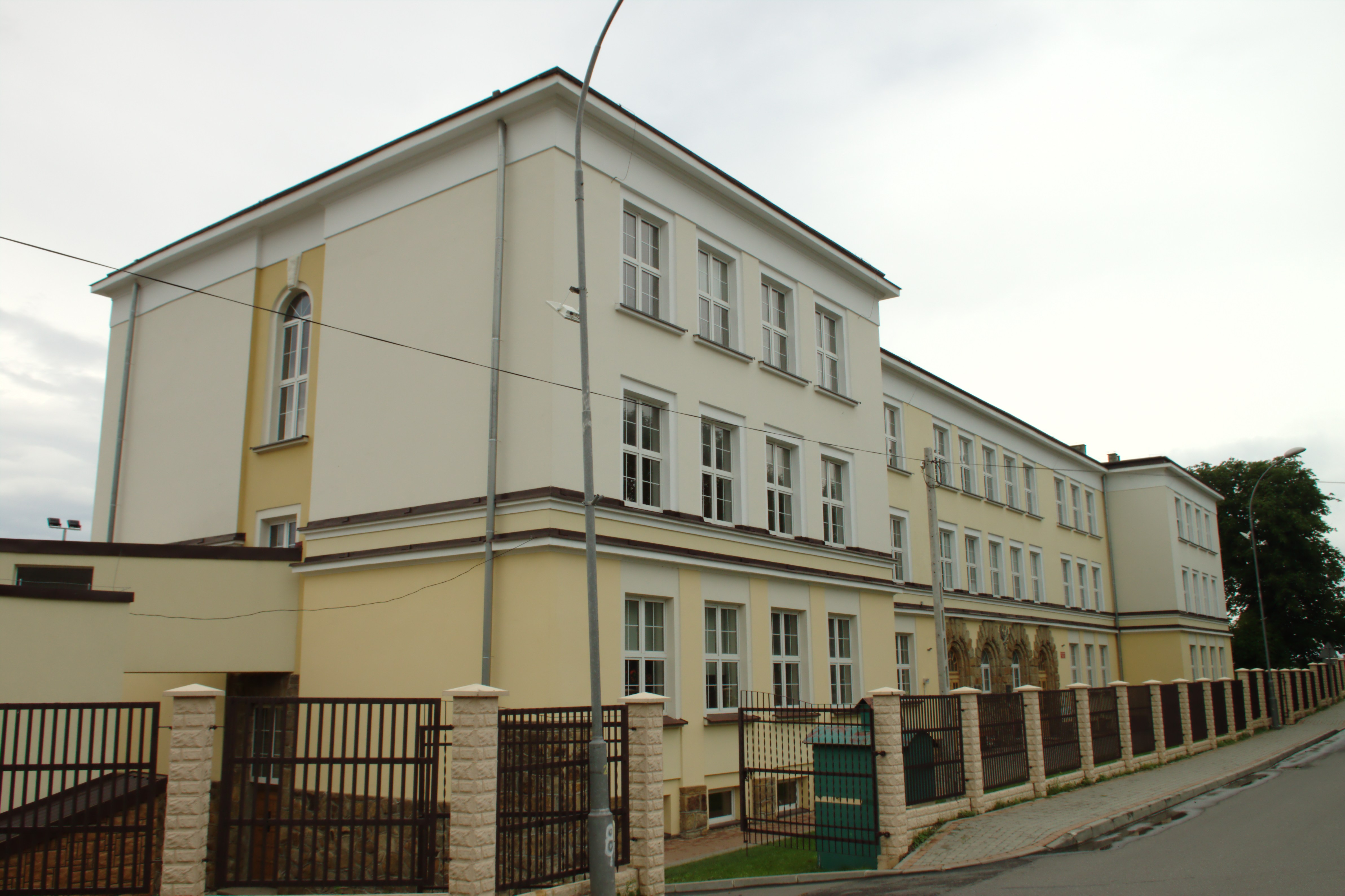 A school building in western part of the town of Rymanów, Podkarpackie voivodeship, Poland This photo of Subcarpathian Voivodeship was taken during Wikiekspedycja 2011 set up by Wikimedia Polska Association.You can see all photographs in category Wikiekspedycja 2011. The making of this document was supported by Wikimedia Polska.